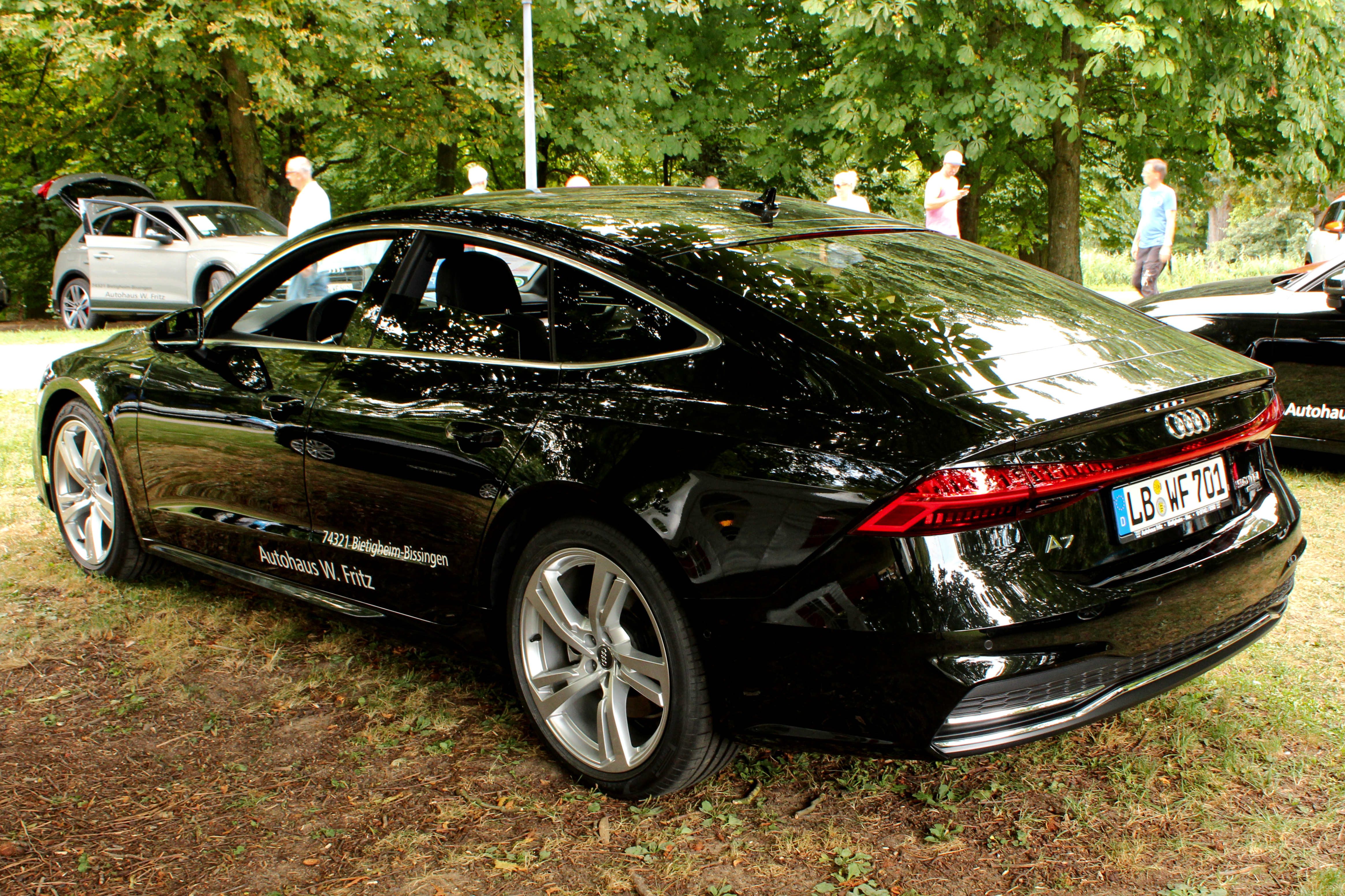 Audi A7 at schloss Monrepos 2018